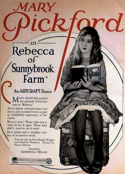 Ad for the 1920 re-release of the American film Rebecca of Sunnybrook Farm (1917) with Mary Pickford, page 4076 of the May 15, 1920 Motion Picture News.